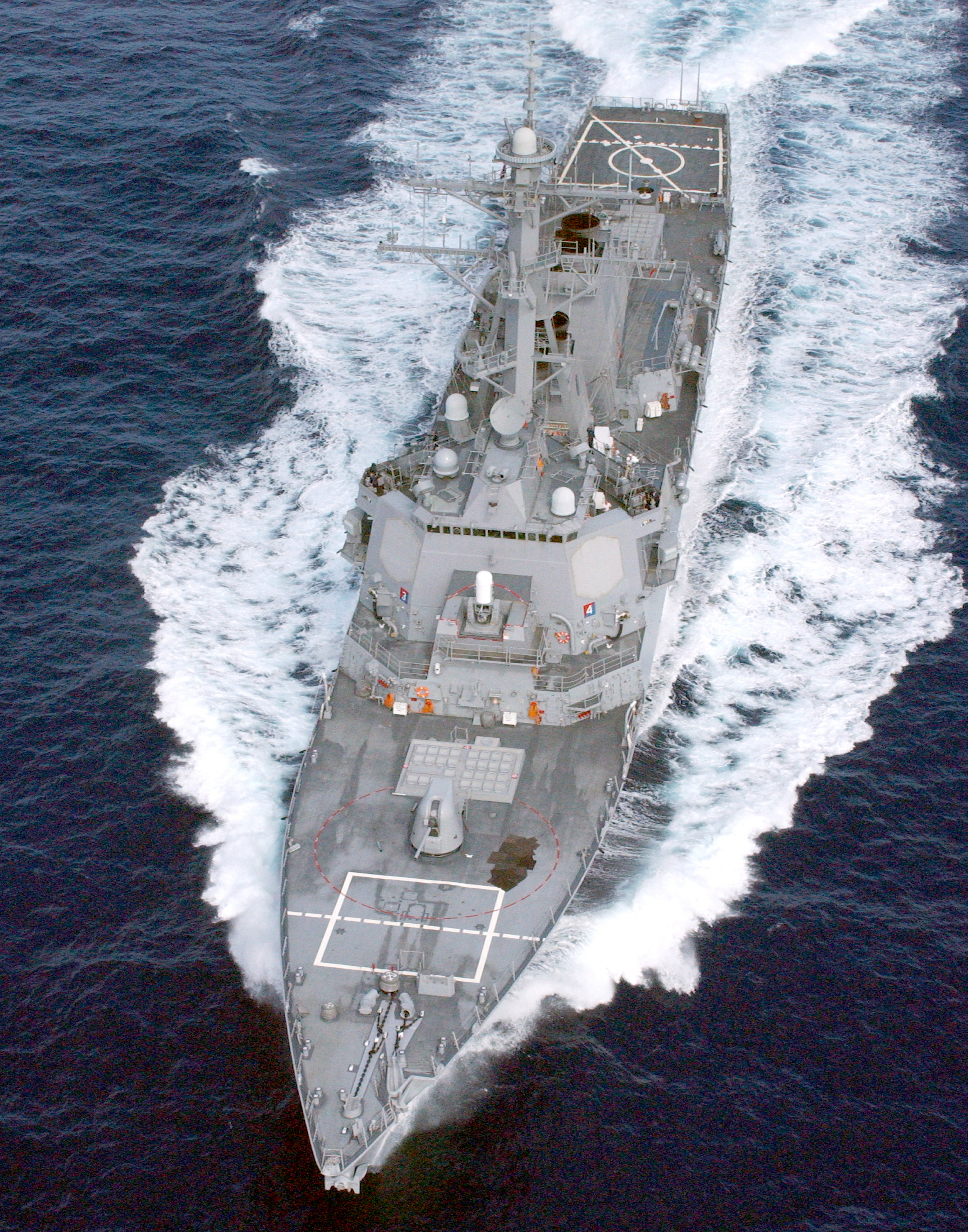 At sea with the guided missile destroyer USS Cole (DDG 67) Aug. 9, 2002 -- USS Cole steams off the coast of the Commonwealth of Puerto Rico conducting Combat Systems Ship Qualification Trials with Naval Sea System Command (NAVSEA). NAVSEA is verifying Cole's combat systems and providing realistic combat training scenarios. Cole recently completed 14 months of shipboard repairs in Pascagoula, Miss., following an Oct. 12, 2000 terrorist attack that killed 17 Sailors in the port city of Aden, Yemen. U.S. Navy photo by Photographer’s Mate 2nd Class James Elliott. (RELEASED)